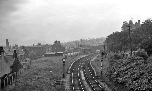 Burnley (Manchester Road) Station. View eastward, towards Todmorden; ex-Lancashire & Yorkshire, Burnley (Gannow Junction) - Todmorden main line. This station was closed on 6/11/61 (goods 2/4/63), but a new station was opened nearby on 29/9/86.